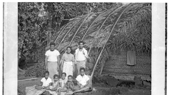 Peni Tāufa and family outside their house, Pētani village, Hahake, Niuafoʻou, 1967